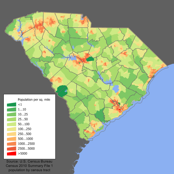 South Carolina population density map based on Census 2010. See the data lineage for a process description.